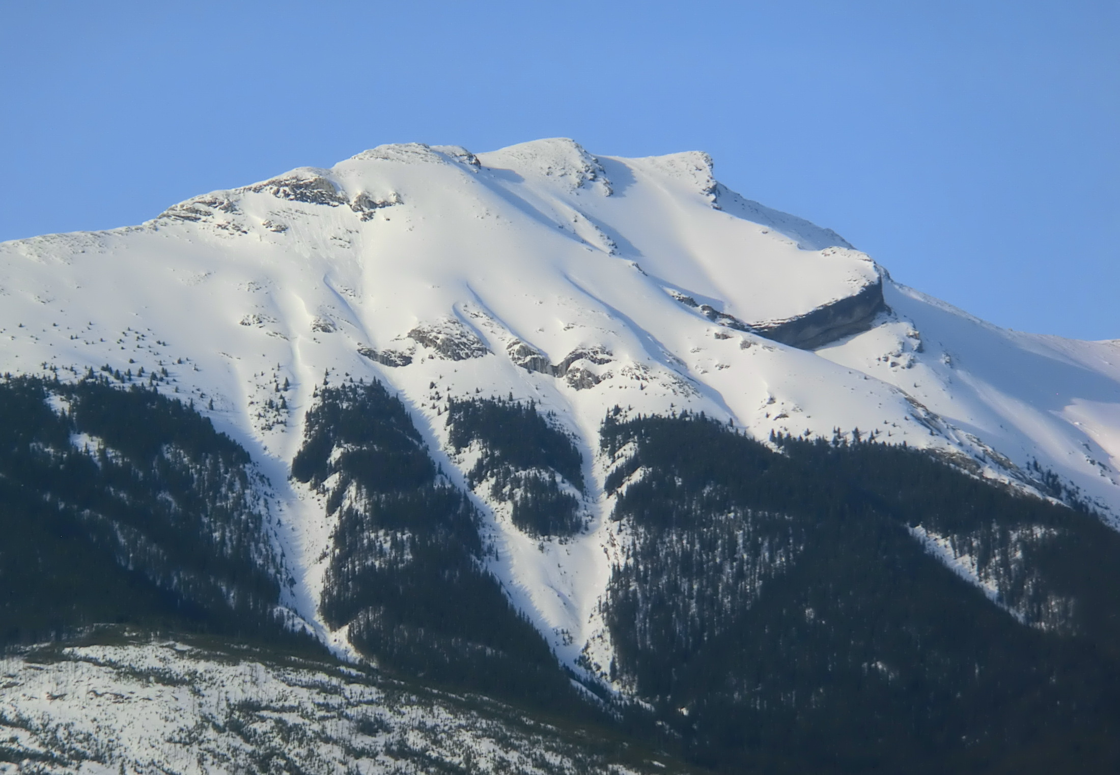 Jasper National Park Rock Formation Resembling Human Face 2012-04-09 This photo was taken in a protected area in Canada, Wikidata item Jasper National Park (Q503429)